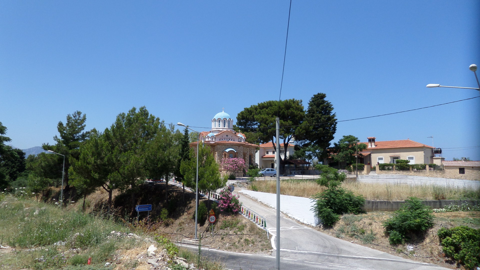 A small church in the crossroad to the village